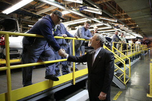 President George W. Bush touting energy efficient cars at the Fairfax Assembly Plant in Kansas City shakes hands with millwright, Bob Cooper, on the assembly line. White House photo by Eric Draper.